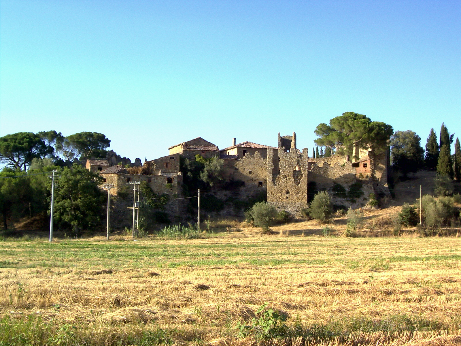 The ruins of Zocco castle, on the eastern shore of Trasimeno Lake. This is the only medioeval center of the zone still intact. Unfortunately, is in ruins as the private that had it have no provided to any manutention by decads.